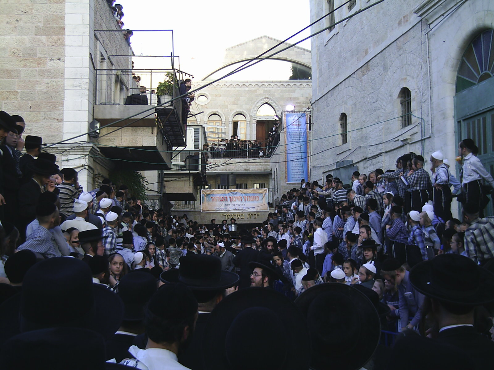 Meeting of Toldos Avrohom Yitzchok. Schools in Jerusalem and Beit Shemesh. At the head in the middle of the Rebbe. Self made in Meah Shearim, Jerusalem, June 2006.